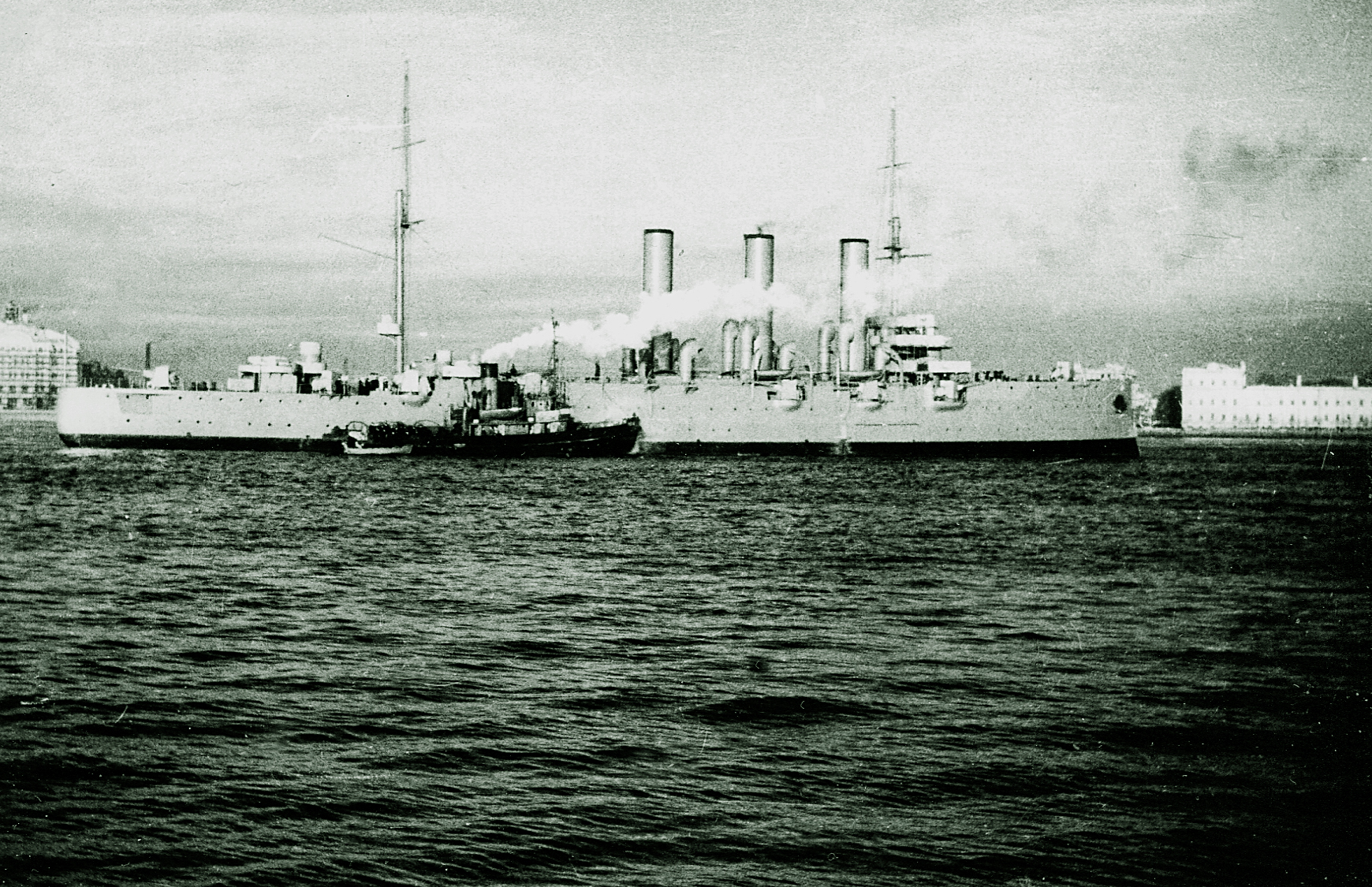 Russian protected cruiser Aurora. The last appearance.